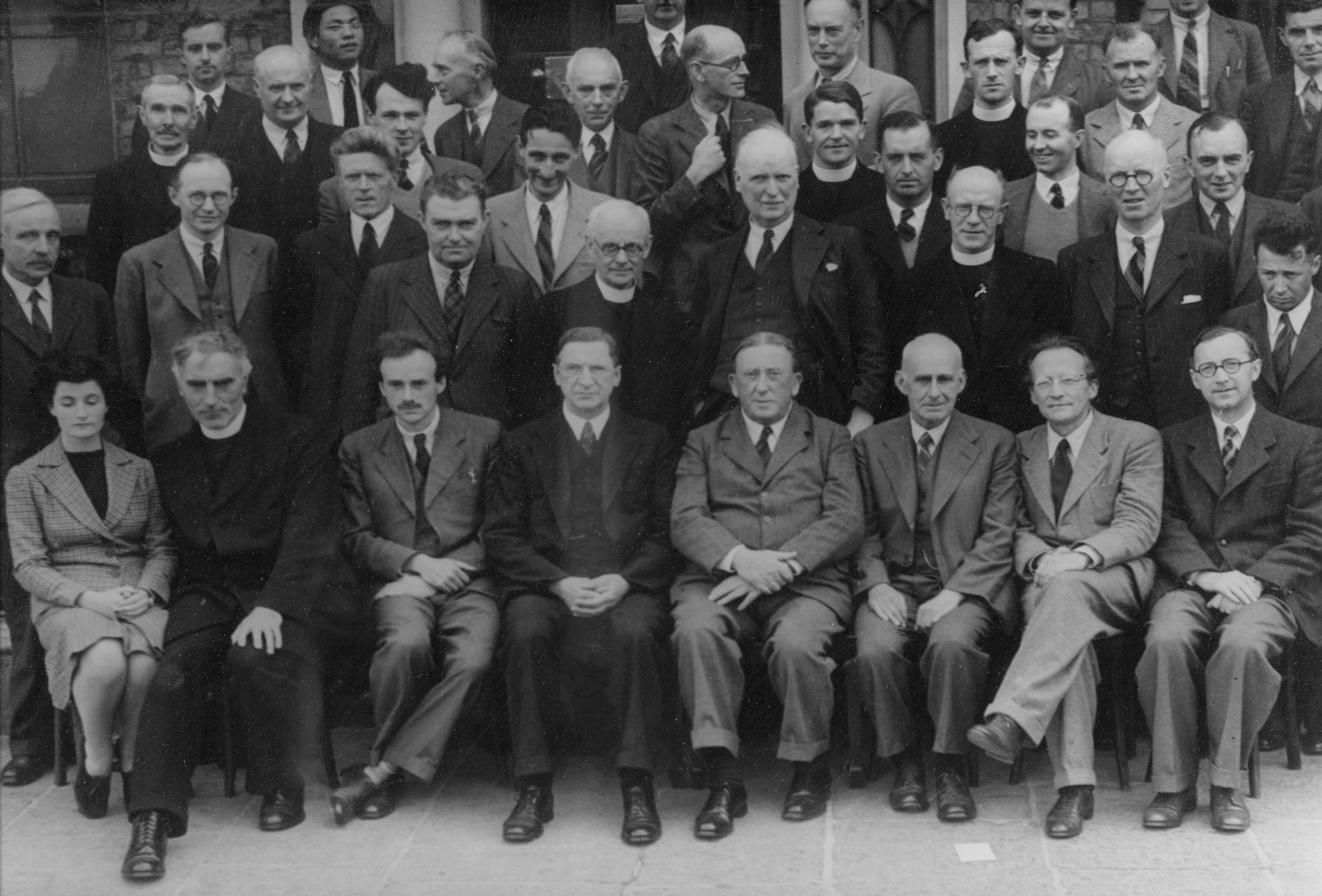 Photo of Paul Dirac, Sheila Tinney, and others at DIAS in1942First row from left:Sheila Tinney, Pádraig de Brún, Paul Dirac, Éamon de Valera, Arthur Conway, Arthur Eddington, Erwin Schrödinger, Albert Joseph McConnell.